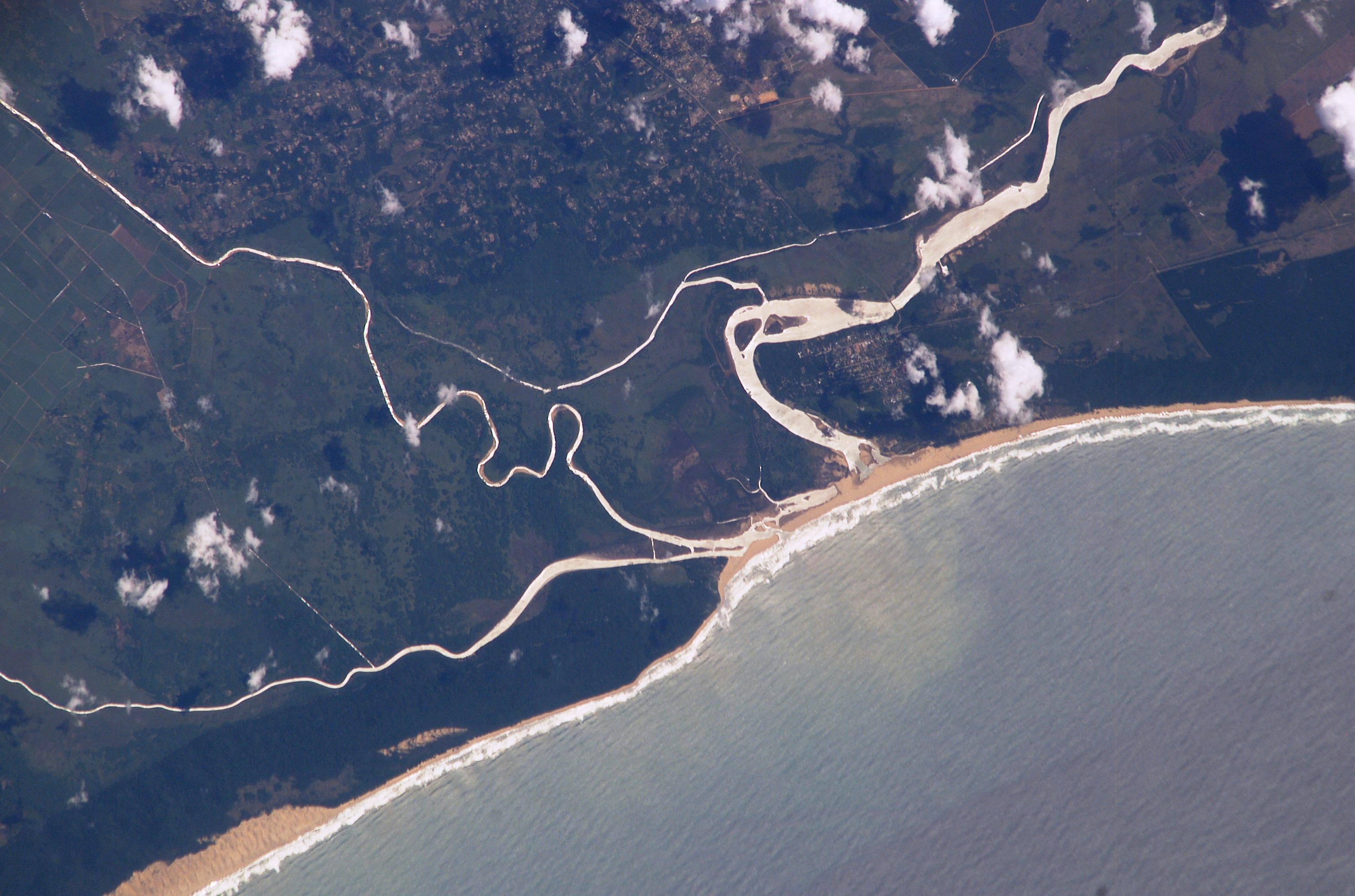 Saint Lucia Estuary, seen from space, image #ISS006-E-38182. The Msunduzi River is seen on the left (south), the Umfolozi in the middle, with canals since abandoned, and the St. Lucia estuary on the right (north). St. Lucia town is visible inside the bend of the estuary. Between the Msunduzi and Umfolozi is a wetland, showing as a mottled area. On the far left are sugar cane fields. Note a silt plume in the sea.